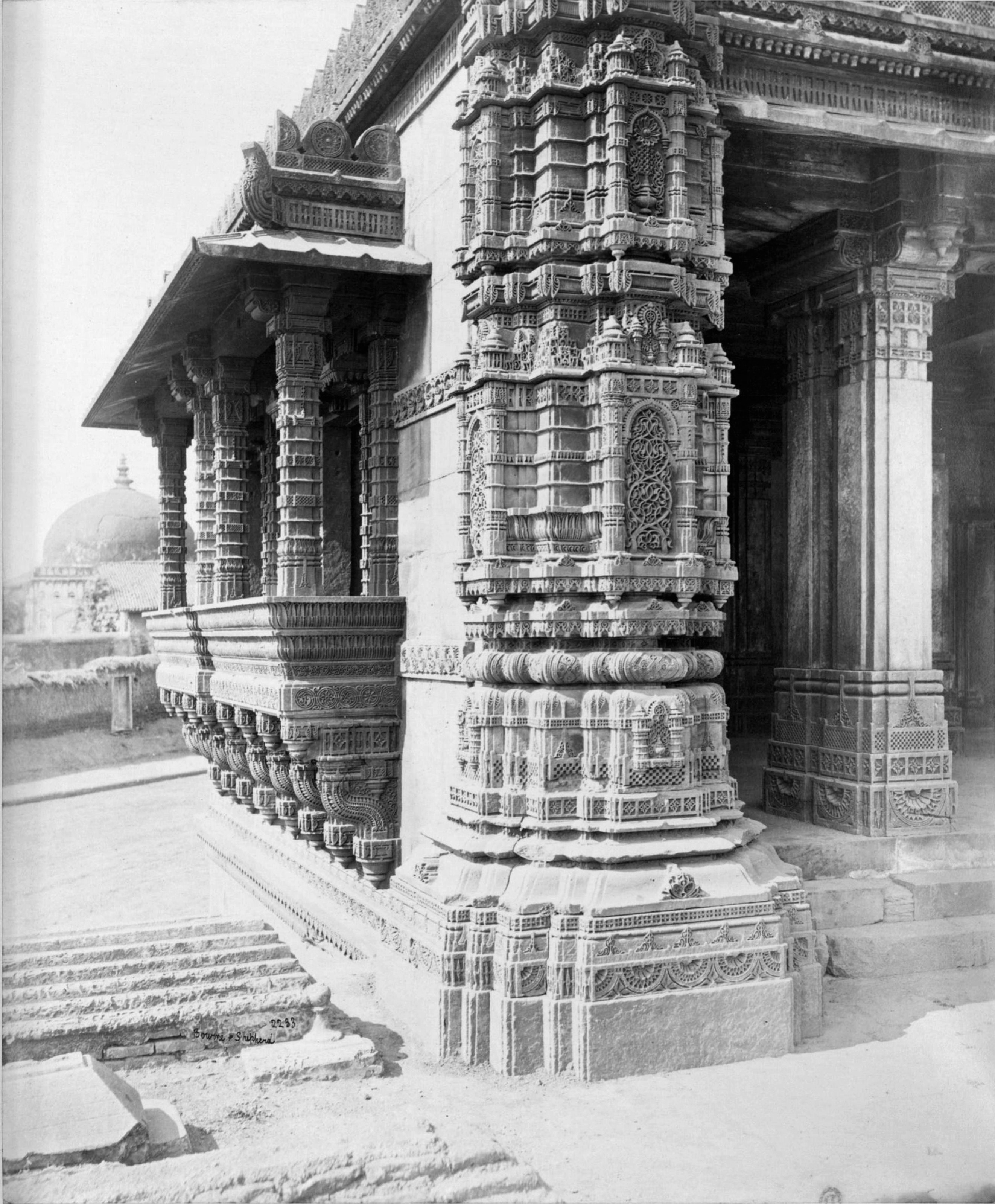 Window and base of a minaret in Rani Sipri's mosk, Ahmedabad. Planche 2 in Photographs of architecture and scenery in Gujarat and Rajputana, by Bourne & Shepherd, and James Burgess.